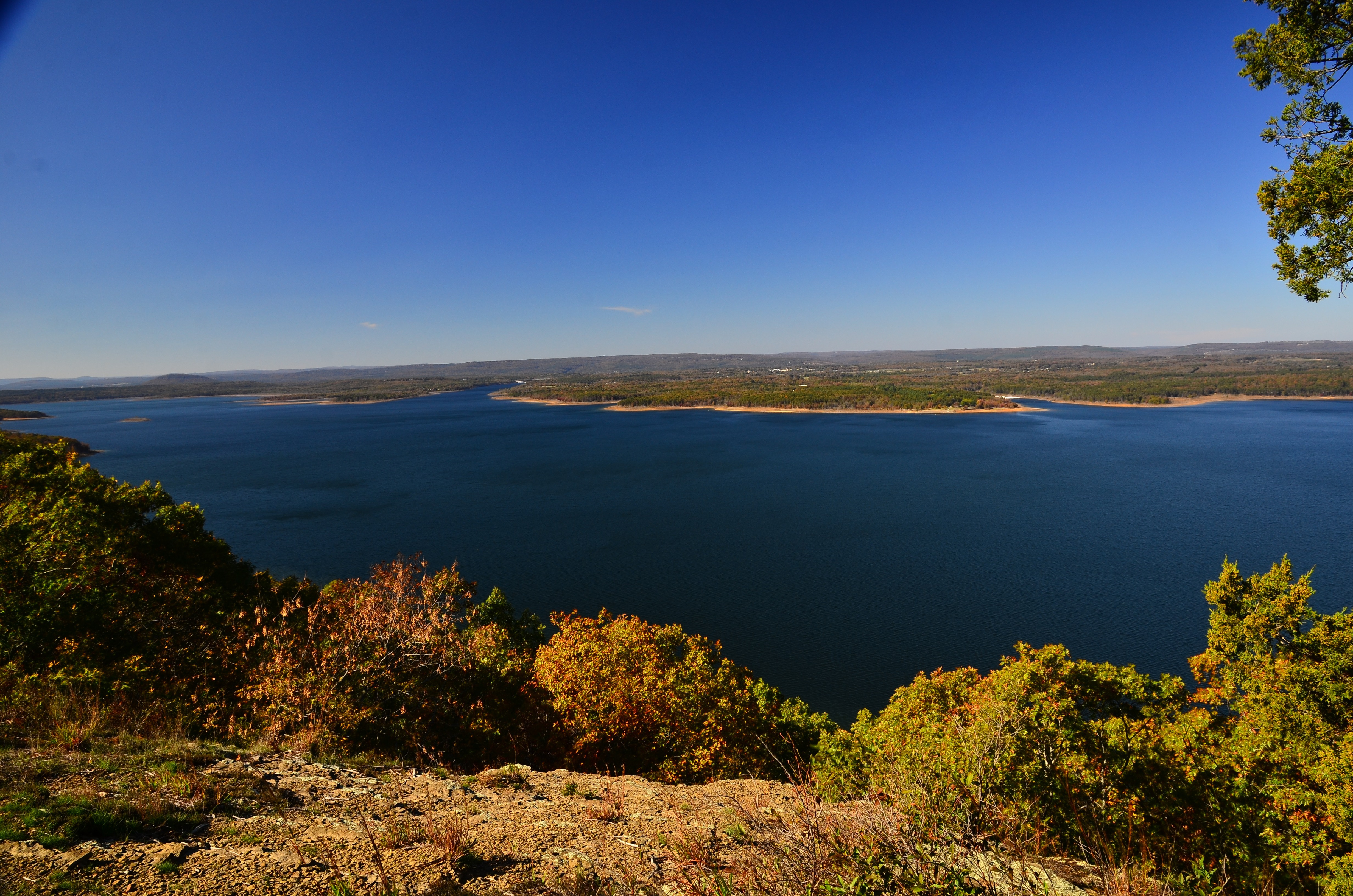 This photo was taken from the The Bluffs at Miller's Point, Greers Ferry Lake